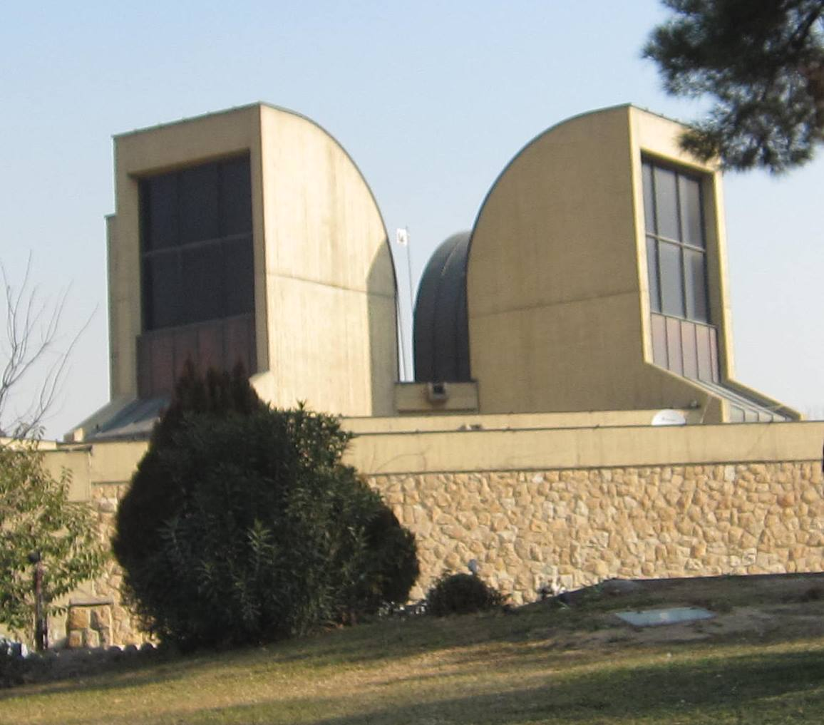 Tehran Museum of Contemporary Art